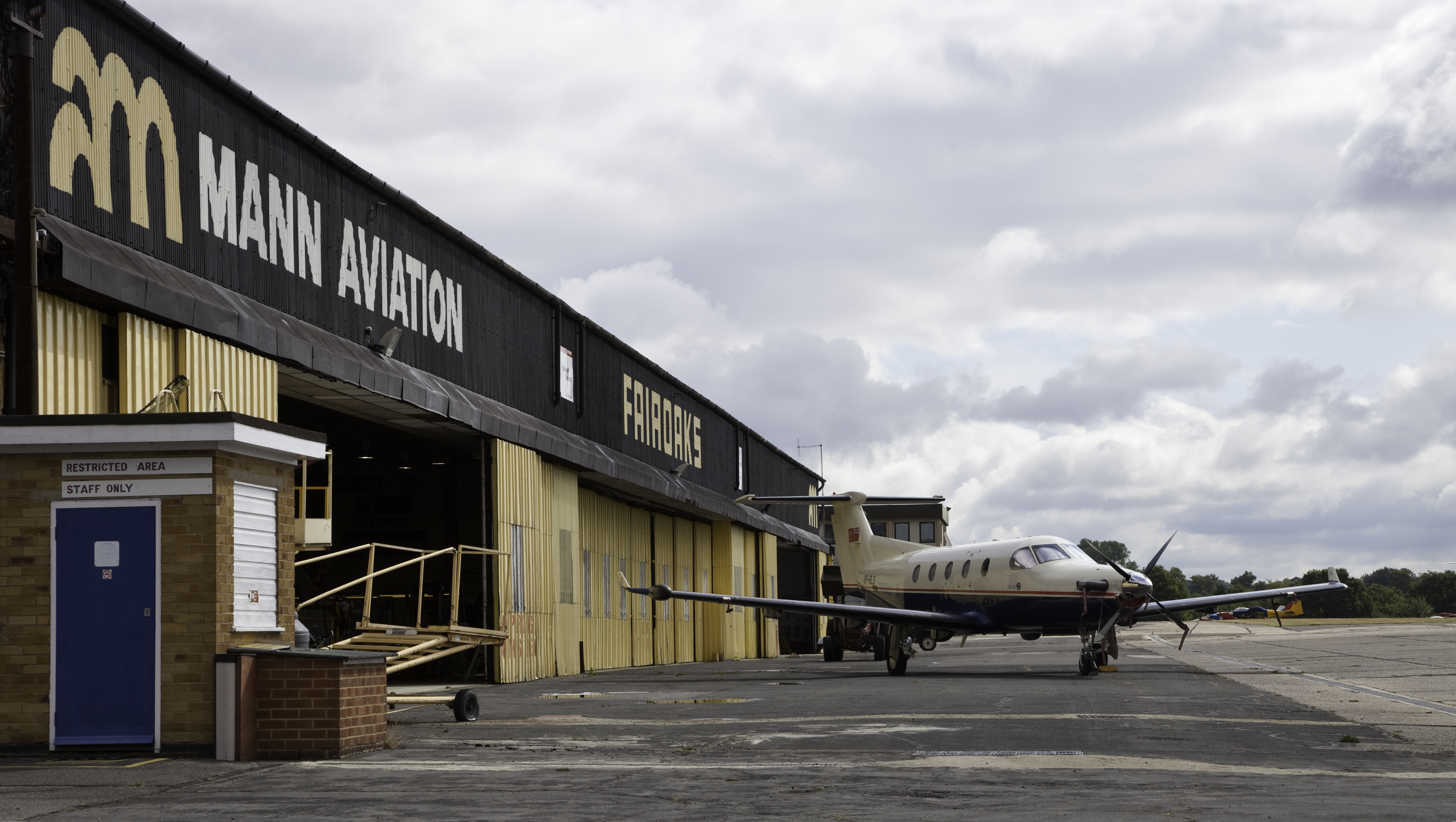 Mann Aviation at Fairoaks Airport Surrey England